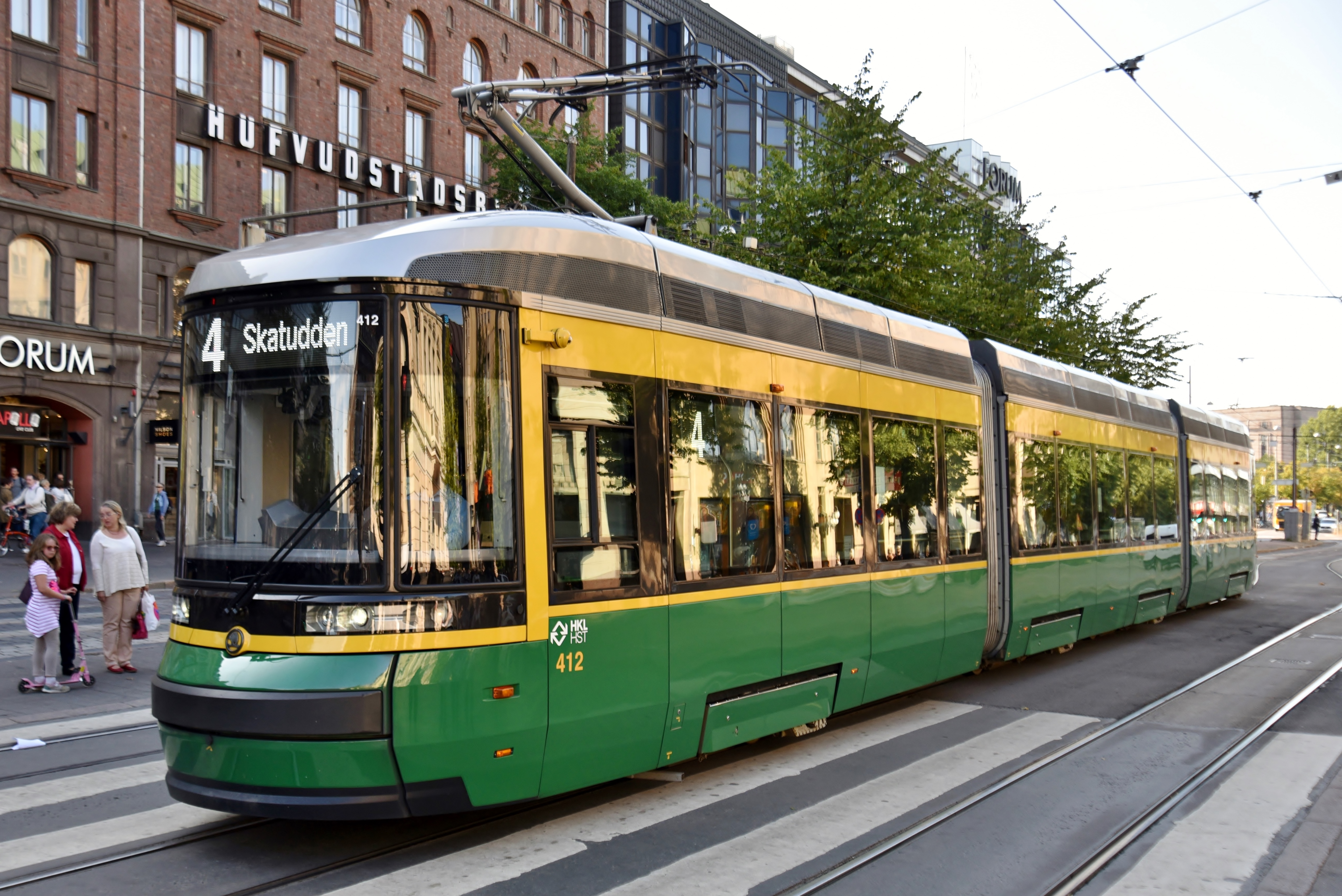 View of Helsinki City Transport (HKL HST) Artic tram no. 412 in Mannerheimintie, Helsinki